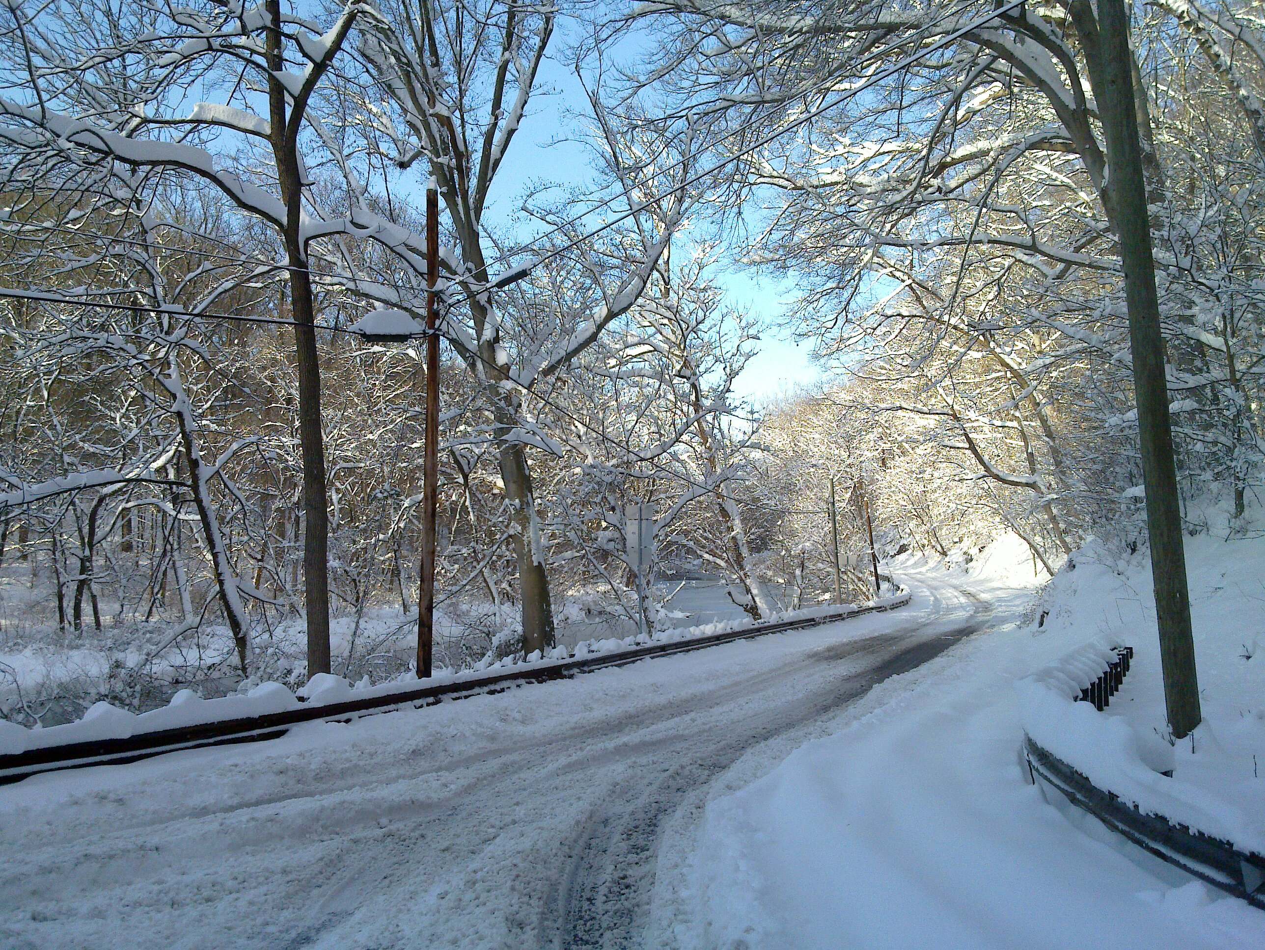 Creek Road (DE 82) at Snuff Mill Road